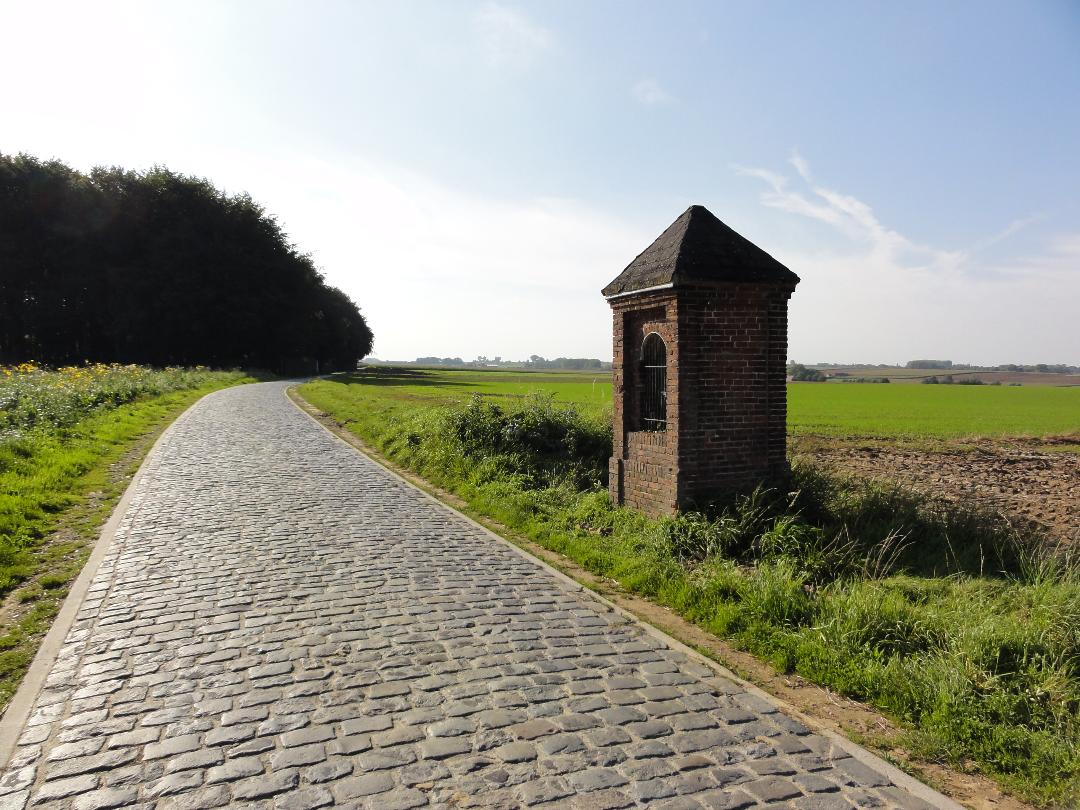 Huisepontweg road with chapel in Wannegem-Lede. Wannegem-Lede, Kruishoutem, East Flanders, Belgium